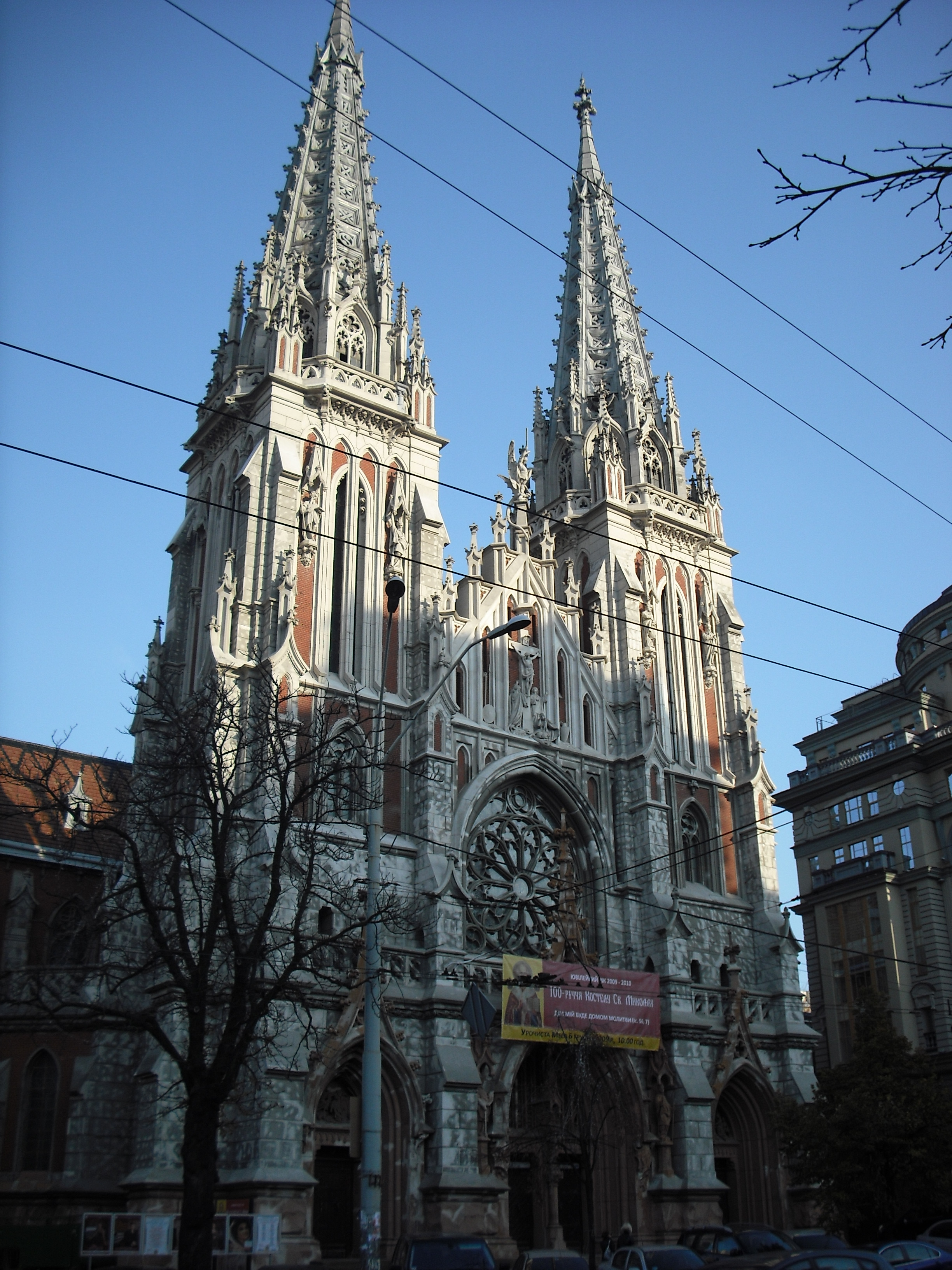 Kiev - St. Nicholas Roman Catholic Cathedral